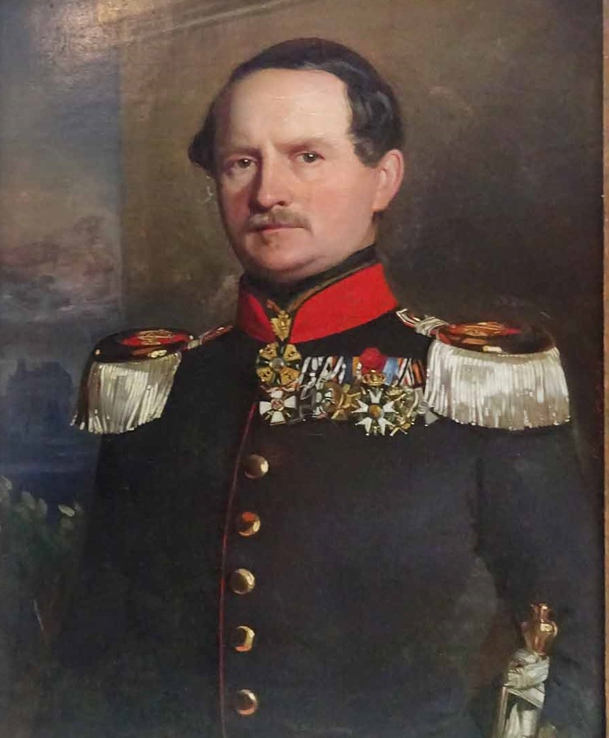 Oil painting of Karl Friedrich Ferdinand Kusserow from my personal collection.